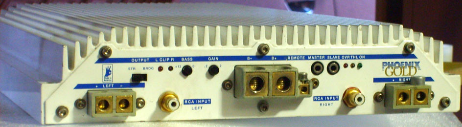 Amplificatore per Auto Phoenix gold ms 2125